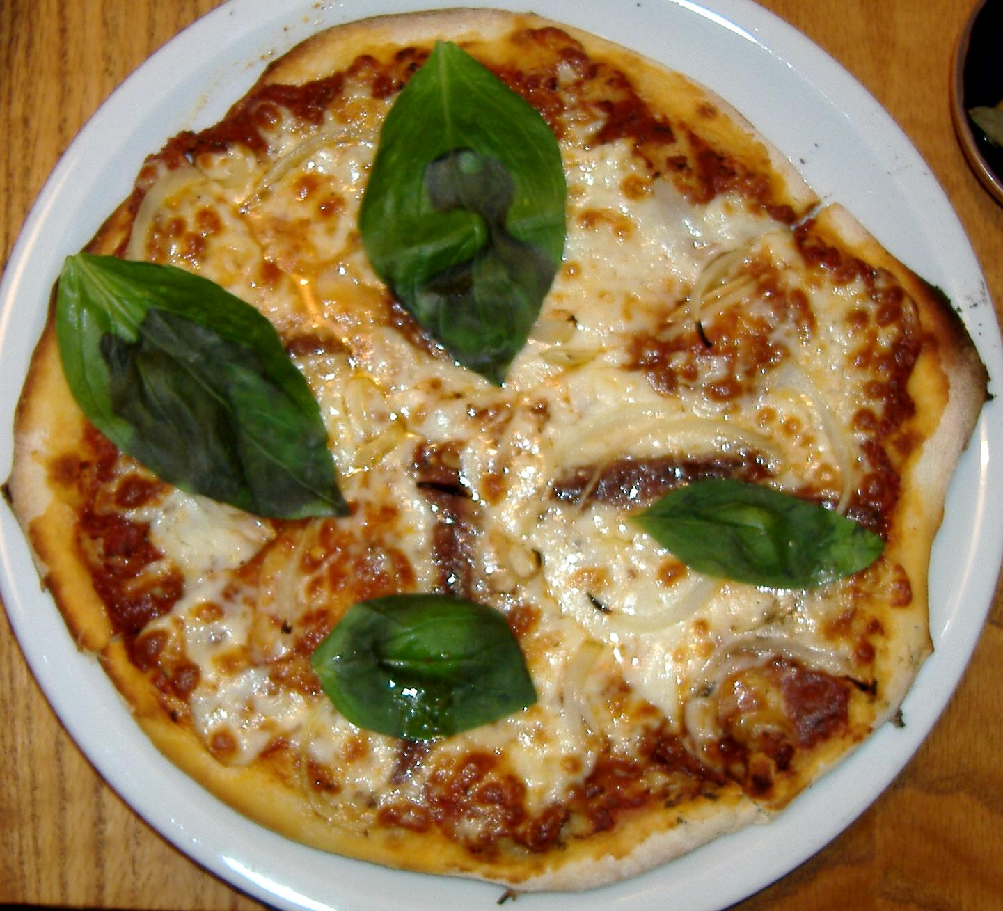 Pizza with onion and anchovies. From restaurant Topolino, Jerusalem (Israel)